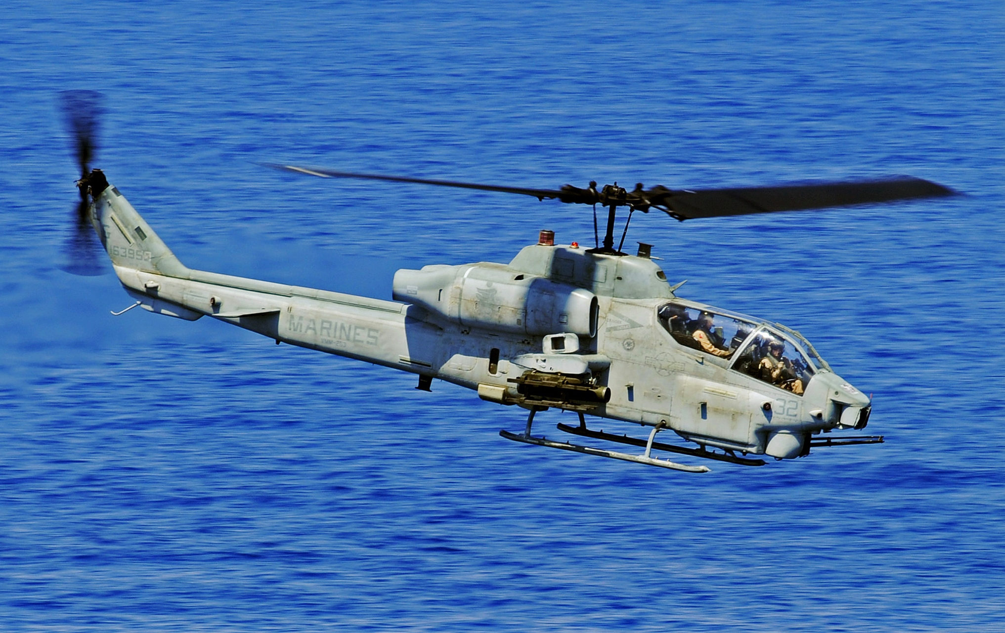 MEDITERRANEAN SEA (June 9, 2009) An AH-1W Super Cobra from the Thunder Chickens of Marine Medium Tiltrotor Squadron (VMM) 263 performs a low-altitude surveillance pass during a Visit, Board, Search and Seizure (VBSS) drill aboard the amphibious dock landing ship USS Fort McHenry (LSD 43). The Fort McHenry is deployed with the Bataan Amphibious Ready Group (ARG) in support of maritime security operations in the 5th and 6th Fleet areas of responsibility. (U.S. Navy photo by Mass Communication Specialist 2nd Class Kristopher Wilson/Released)